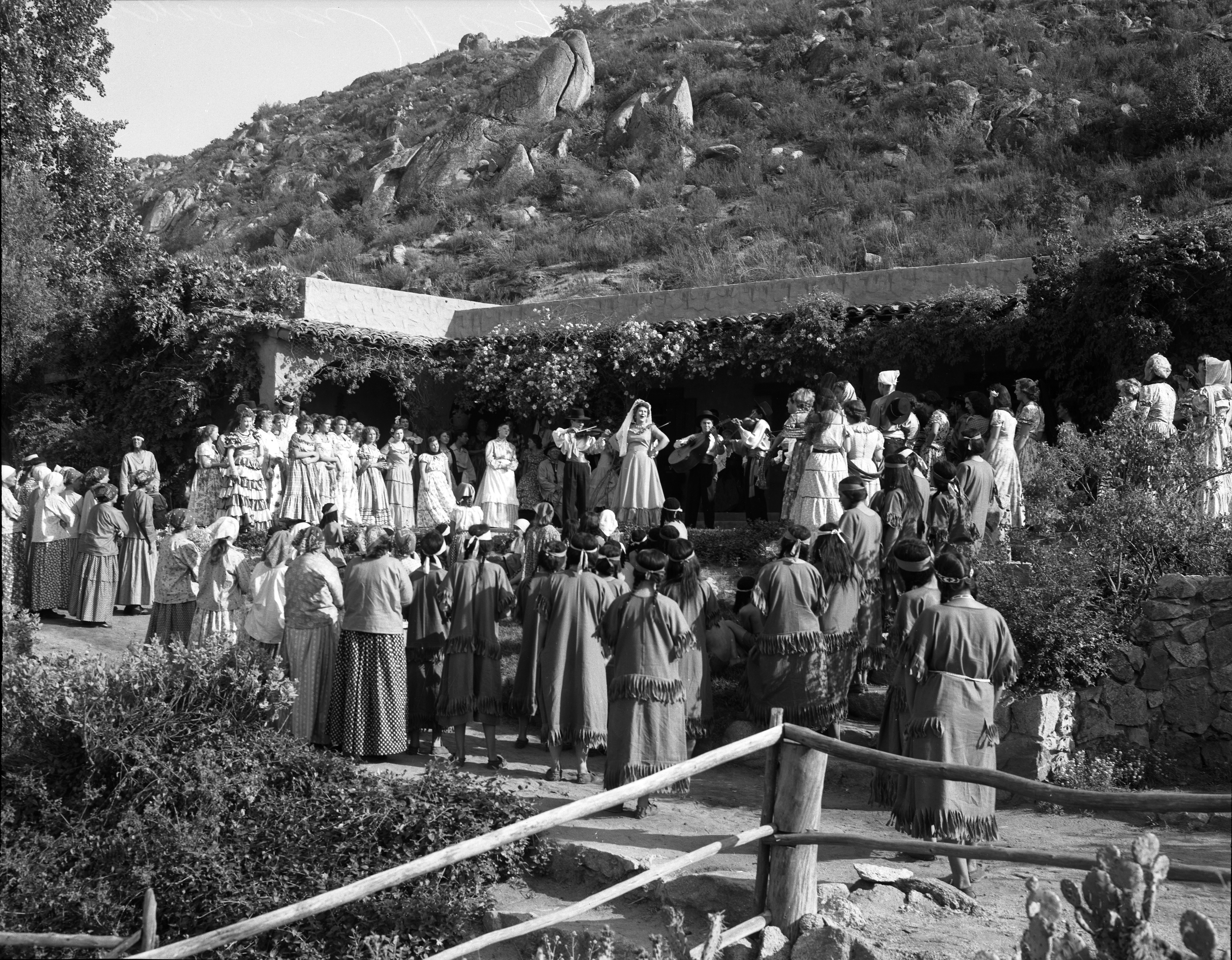 Title: Ramona Pageant — in Hemet, Riverside County, California, 1950. Publication:Los Angeles Daily News Publication date:1950 Subjects: Hemet (Calif.) Source: Los Angeles Times photographic archive, UCLA Library. Note about non-renewal of copyright: [1]